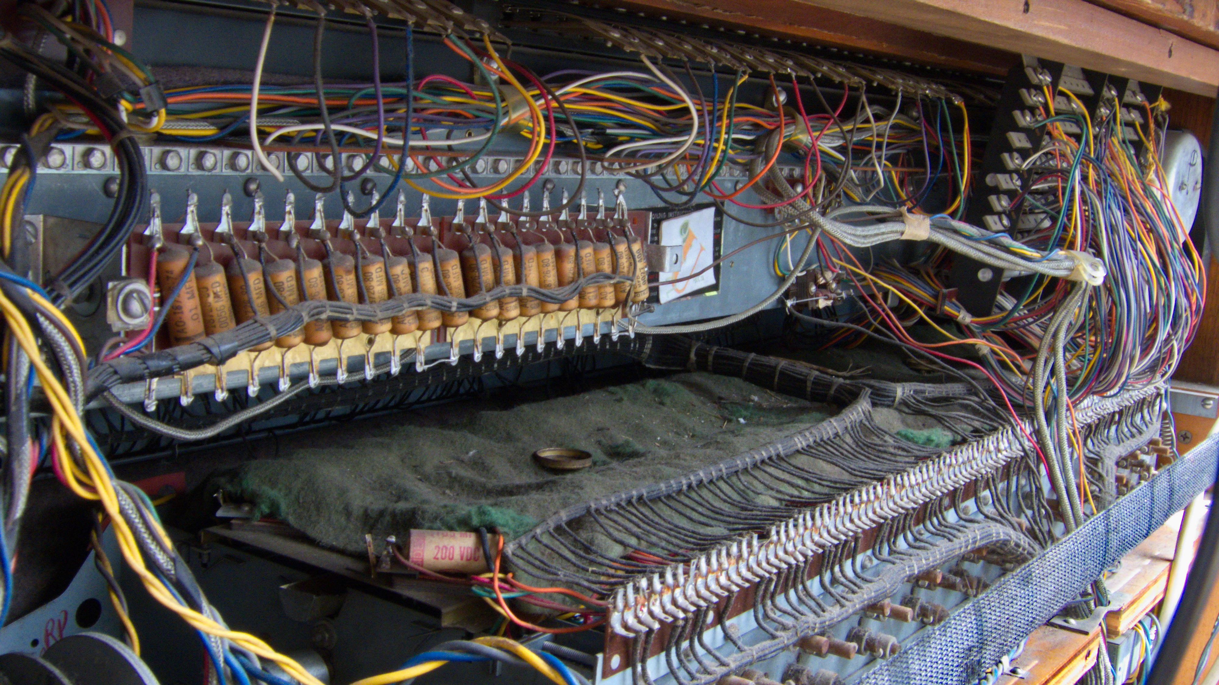 Hammond C3 color coded wires, SJSF 2012